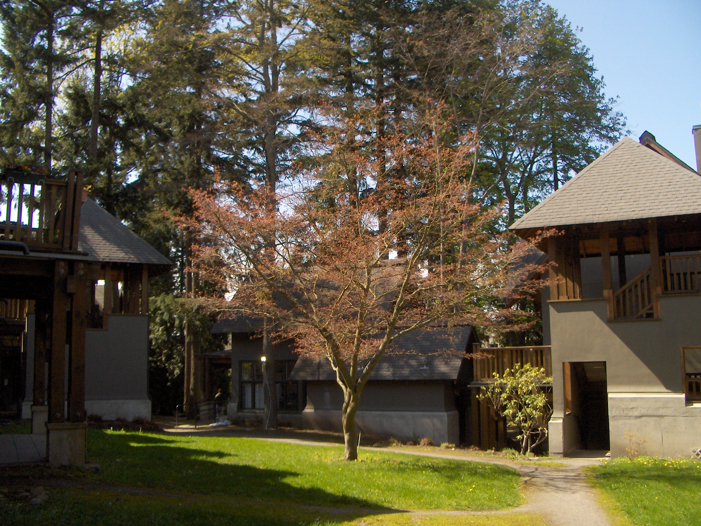 Interior of residential courtyard at Green College, University of British Columbia, showing stair towers and the common kitchen building, with a small tree in the foreground and tall trees in the background.